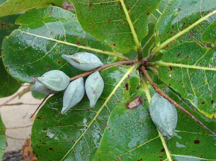 It is similar to Terminalia catappa - Indian-almond, or Tropical Almond, but fruits are smaller. Australian (QLD) native . The large broken tree trunk was laying on the beach, but still alive. Location: Hinchinbrook island, tropical Australia See where this picture was taken.